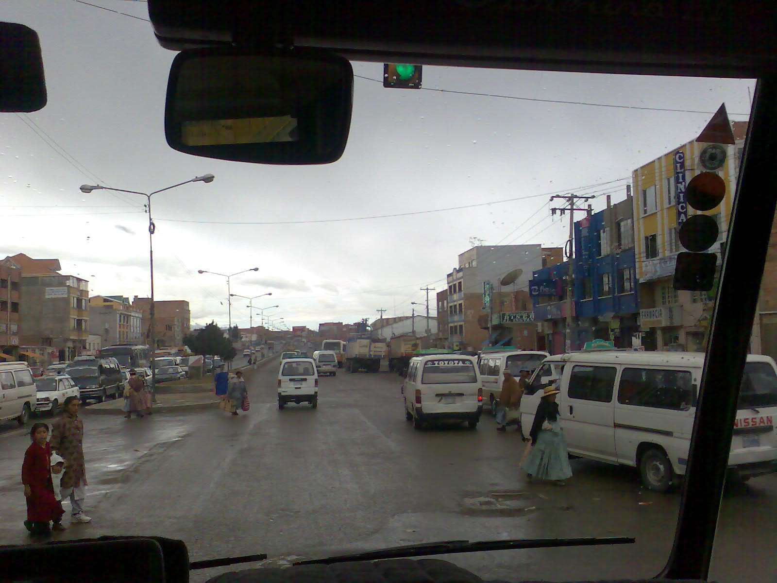 El Alto - main street